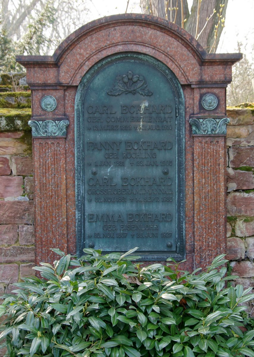 Grave of Eckhardt